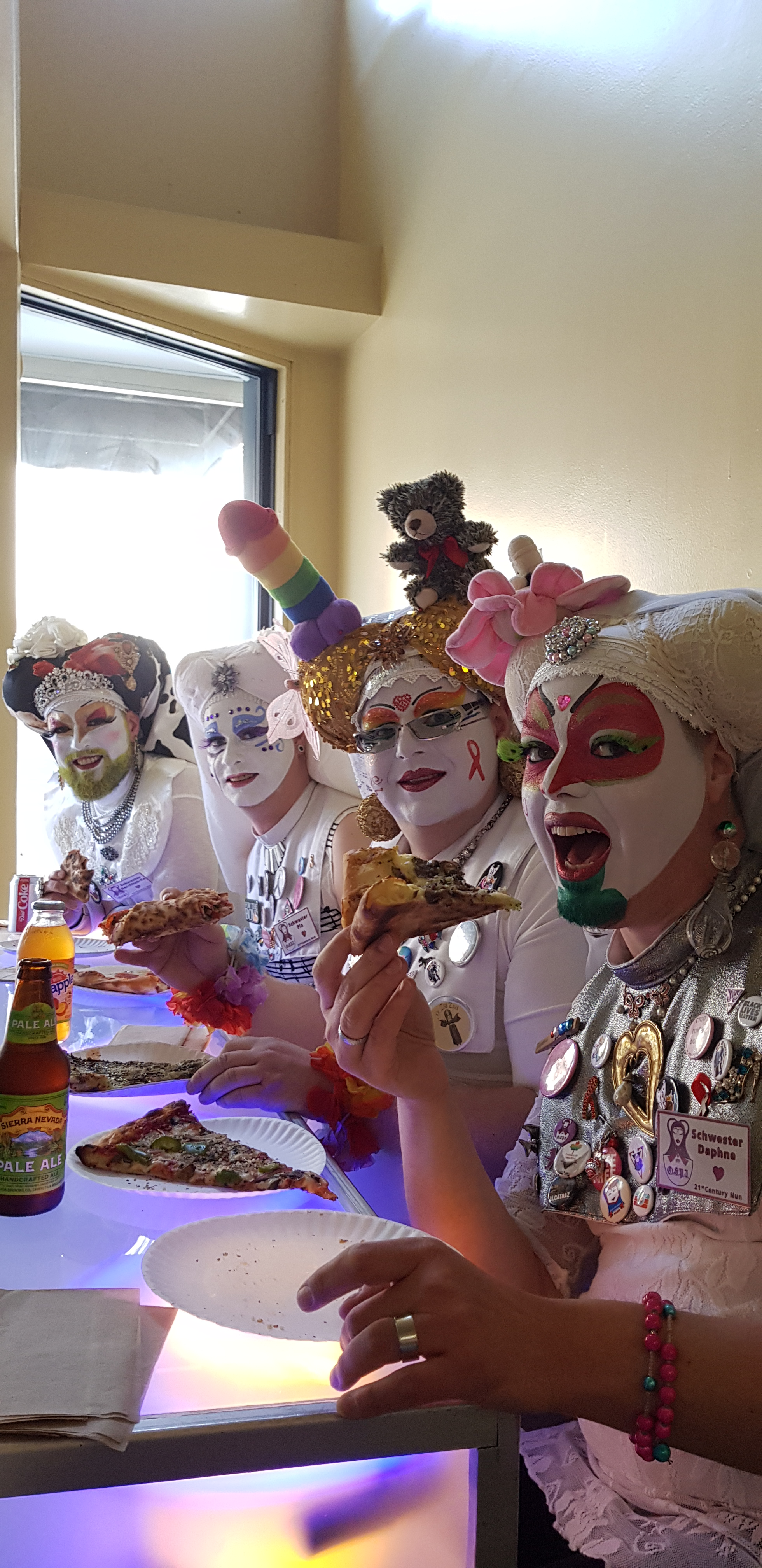 Sisters of the Berlin OSPI having dinner in the Castro at Marcello's Pizza. Left to right: Sister Bar-Bitch-Ka OSPI, Sister Pia OSPI, Sister Rosa OSPI, Sister Daphne OSPI